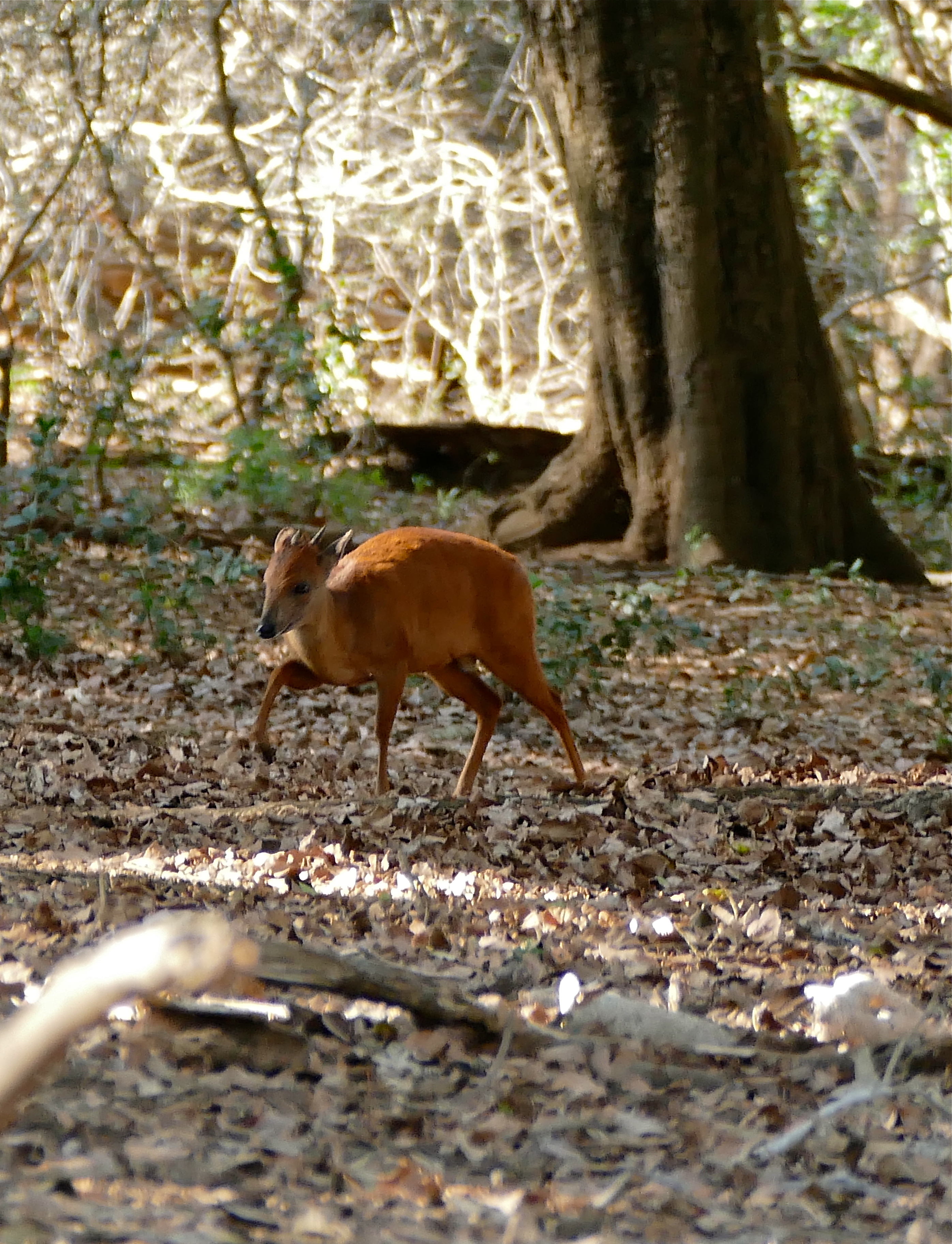 Ndumo Game Reserve, Maputaland, KwaZulu-Natal, SOUTH AFRICA